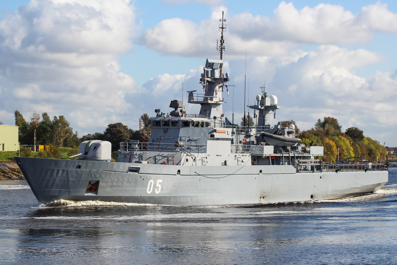 05 FNS Uusimaa, Finnish Navy, leaving the River Clyde on Sunday to take part in exercise Joint Warrior 16-2